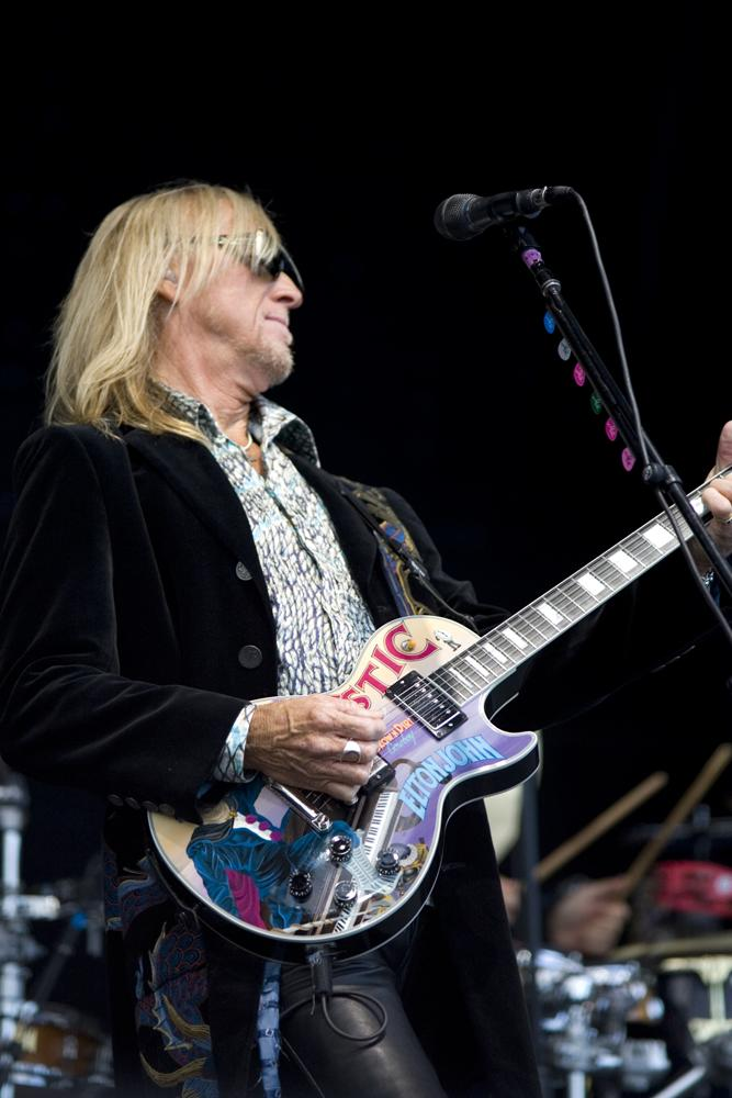 Davey Johnstone (the guitarist of the Elton John Band) performing, 2008